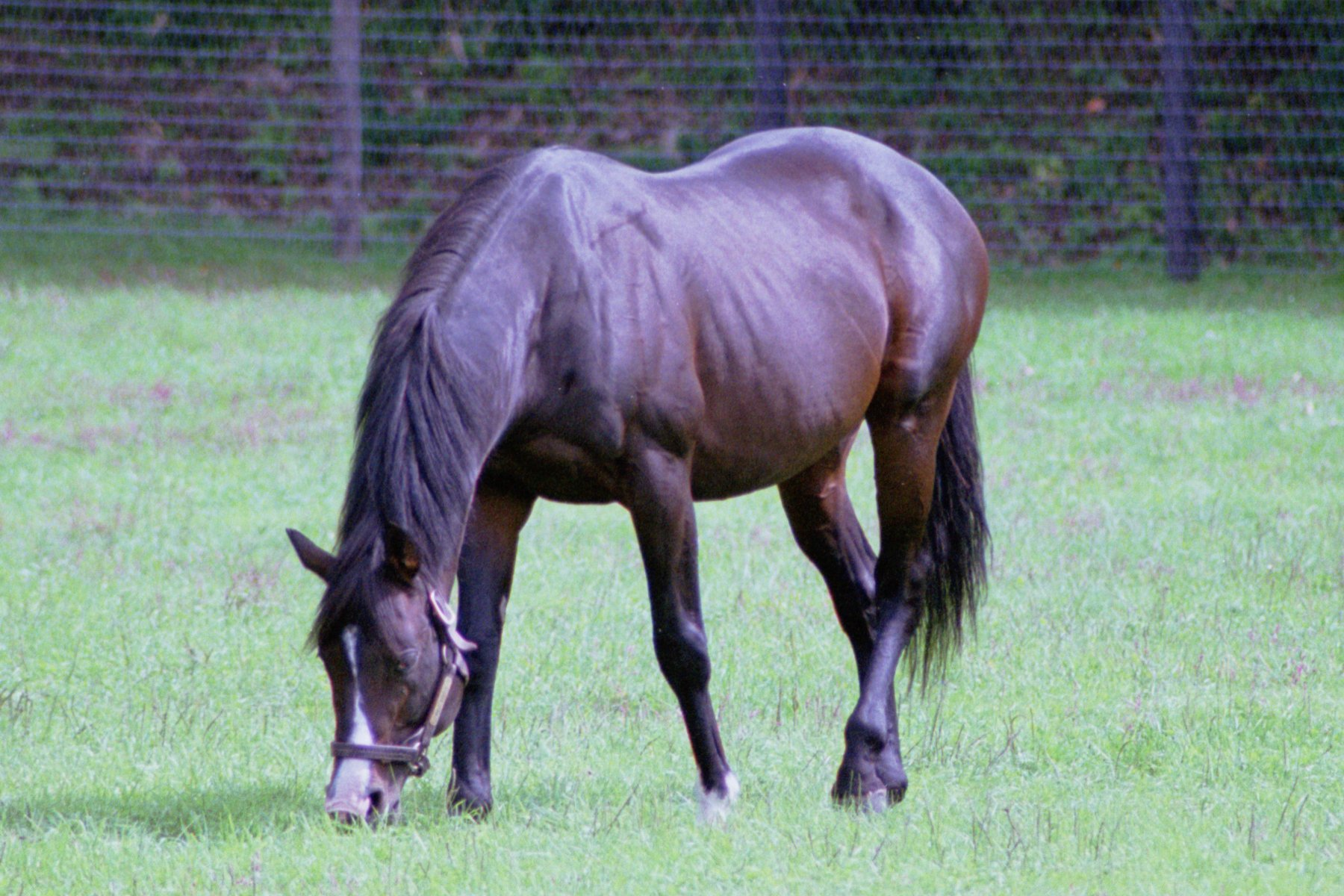 White Muzzle at Shadai Stallion Station,Hayakita(Abira) Hokkaido Japan